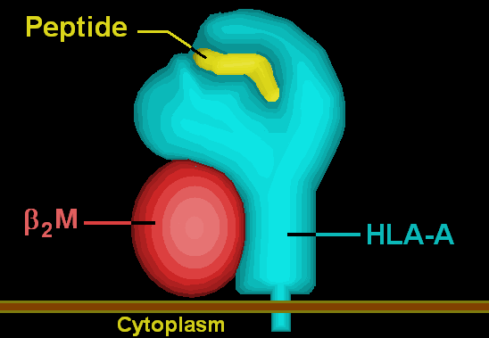 Illustration of HLA-A (HLA A*0201-B2M complexed with HIV TAX peptide)from PDB:2git.